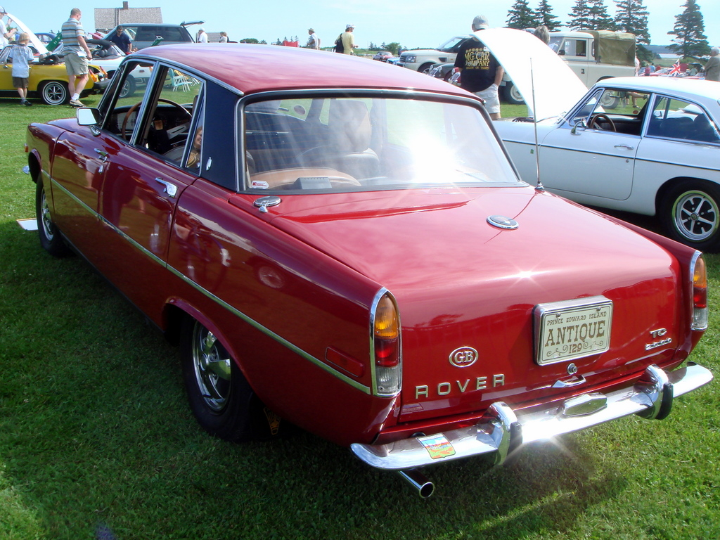 A 1971 Rover 2000TC Series II seen at the 2007 British Car Days Across The Bridge in Cymbria, Prince Edward Island, Canada